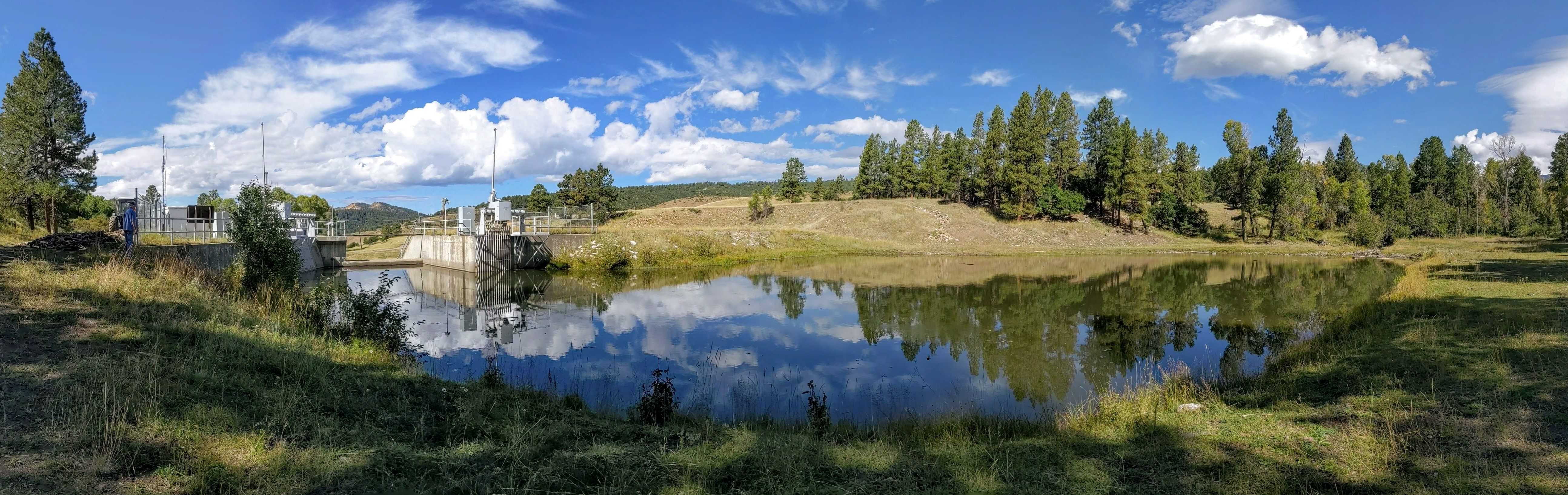 Panoramic view of the reservoir behind the Little Oso Diversion Dam of the San Juan–Chama Project